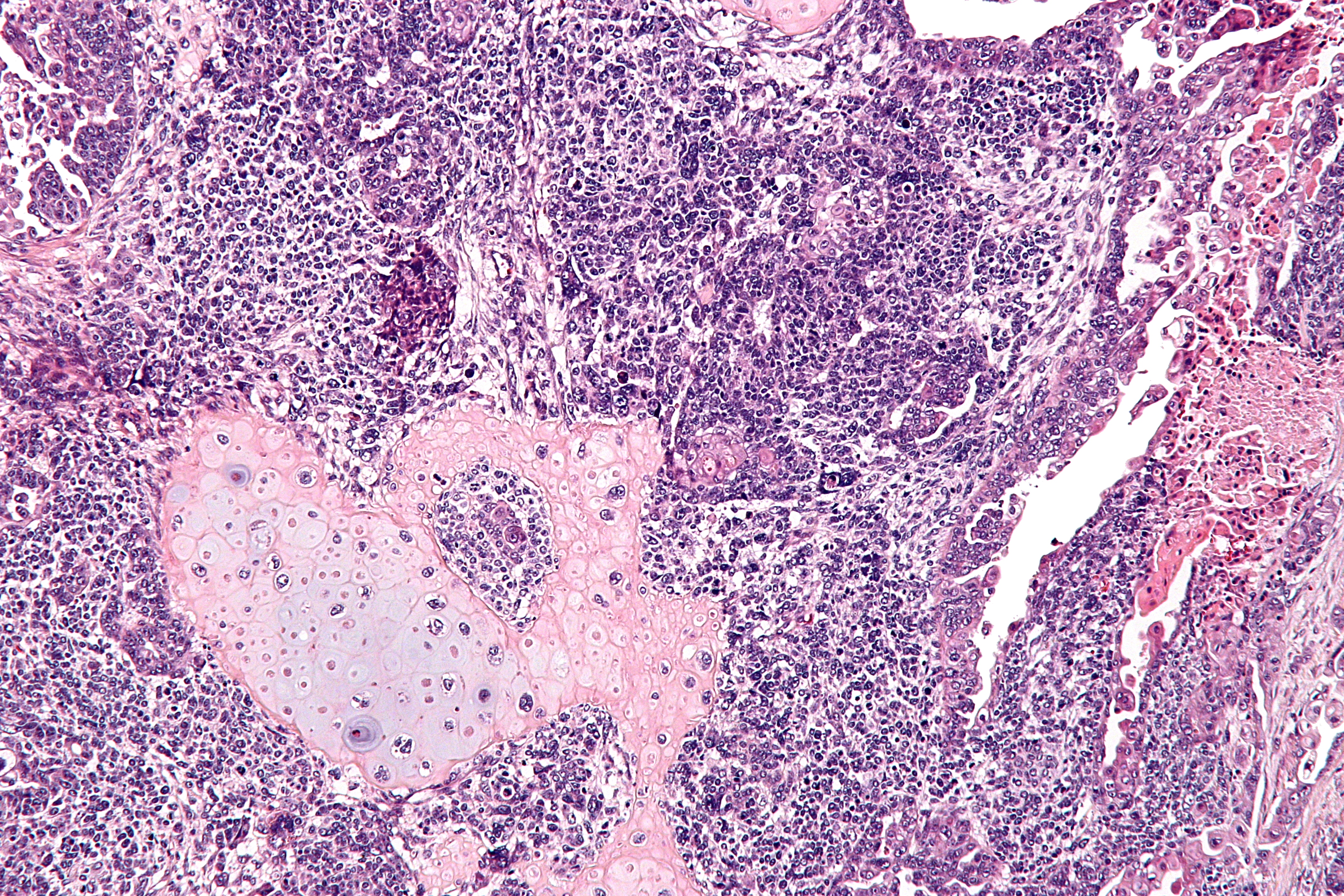 Intermediate magnification micrograph of a carcinosarcoma. Carcinosarcoma is also known as malignant mixed müllerian tumour, and abbreviated MMMT. MMMT may be spelled malignant mixed muellerian tumour, malignant mixed mullerian tumour, malignant mixed muellerian tumor, and malignant mixed mullerian tumor. MMMT is a rare malignant tumour, i.e. cancer, that can be found in the ovary, uterus and uterine tubes. Histomorphologically, there are malignant epithelial and mesenchymal elements. However, it is thought that these tumours probably represent carcinomas with metaplastic elements, as (1) the metastases are carcinomas and, (2) the immunohistochemical features suggest an epithelial origin of the mesenchymal elements.[1][2] Related images Low mag. Intermed. mag. High mag. Very high mag. Intermed. mag. High mag. Very high mag. References ↑ (Jun 1991). "Carcinoma (malignant mixed müllerian [mesodermal] tumor) of the uterus and ovary. Correlation of clinical, pathologic, and immunohistochemical features in 29 cases.". Arch Pathol Lab Med 115 (6): 583-90. ↑ "Differential diagnosis between uterine carcinosarcoma versus carcinoma with sarcomatous metaplasia: an immunohistochemical and ultrastructural case study.". Ultrastruct Pathol 29 (2): 149-55.